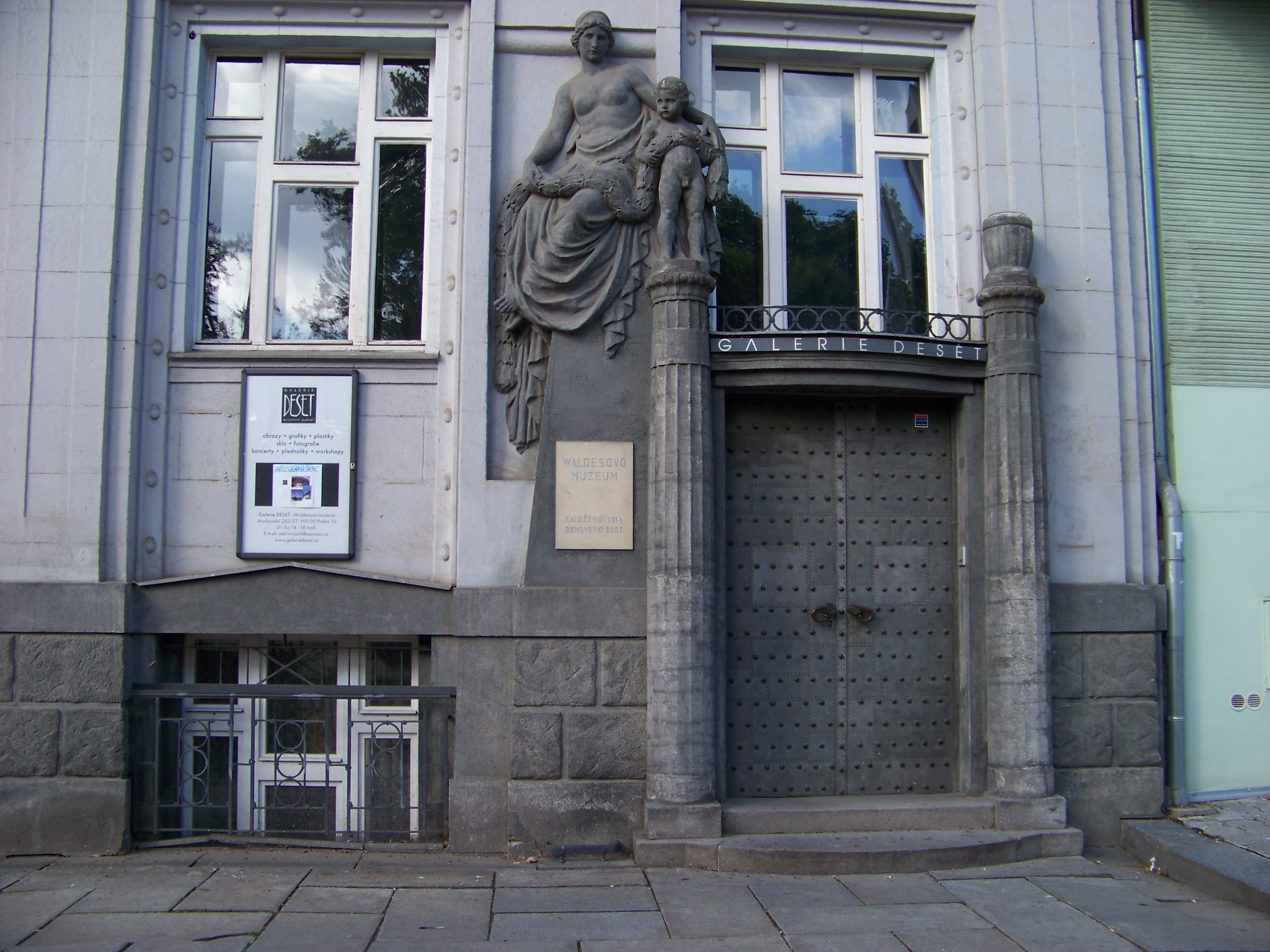 Prague-Vršovice, the Czech Republic. Slovinská 262/1, Deset Gallery.